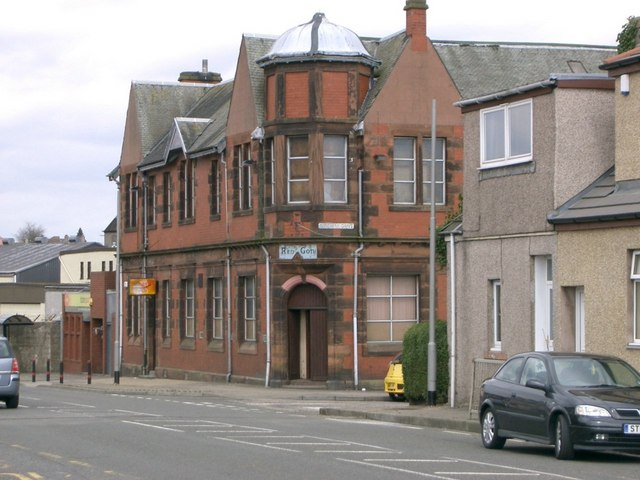 The Red Goth. Public House in Lochore NT3874